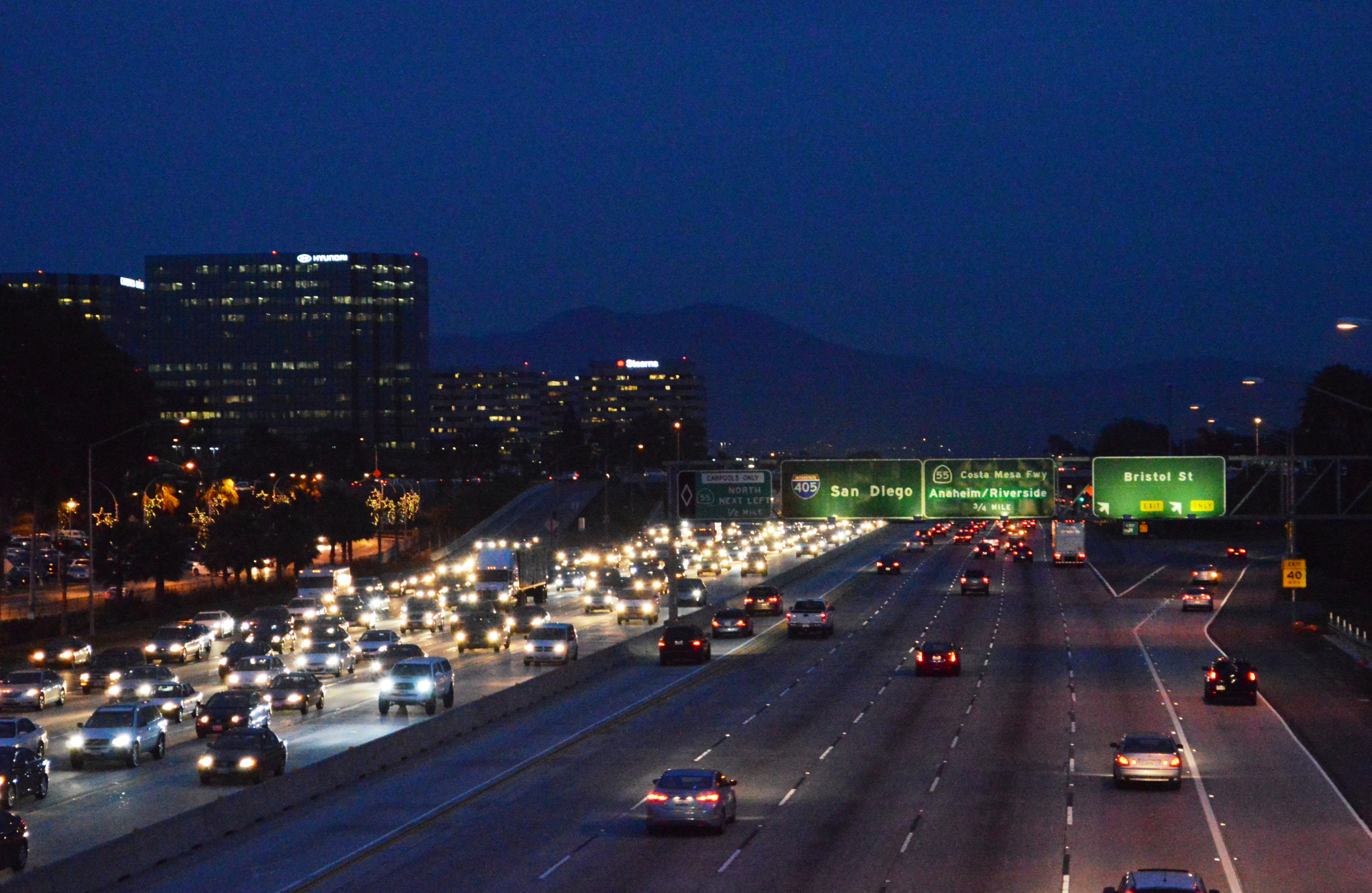 Interstate 405 (California) at the Bristol Street exit in Costa Mesa, California, U.S.A., as seen from Bear Street. This is where you get off the freeway for South Coast Plaza (SCP). The lower left section of the photo is part of SCP's parking lot. The mountain range in the background is Saddleback. Depending on the timing, you can also see an airplane descending toward John Wayne Airport (SNA) (from left to right), as all flights must fly over the 405 in order to land at SNA, which is adjacent to the freeway.